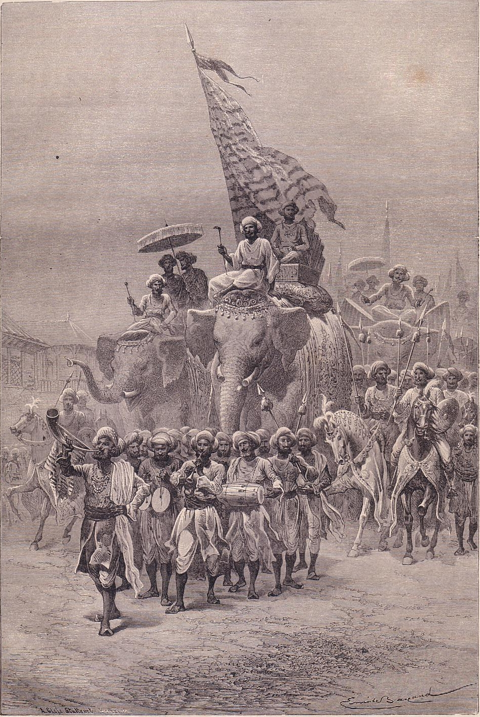 Engravings from a similar set in other publications, 1872-1878